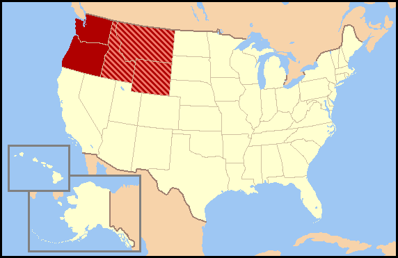 Wikipedia:WikiProject U.S. regions/mnote I made this -JCarriker 16:59, 11 December 2005 (UTC)